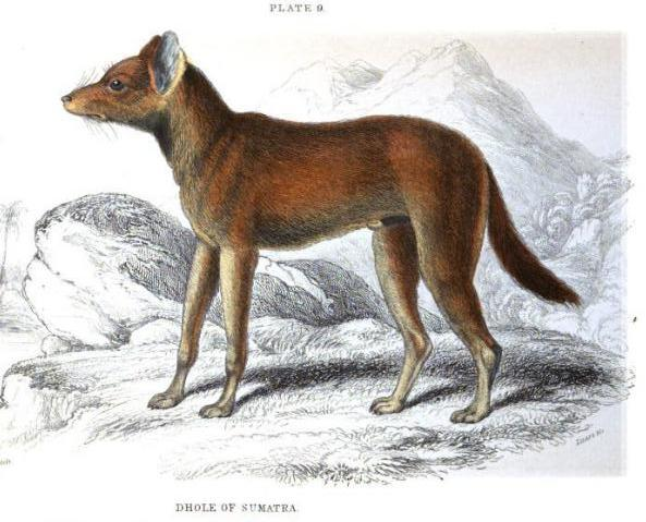 A Sumatran dhole